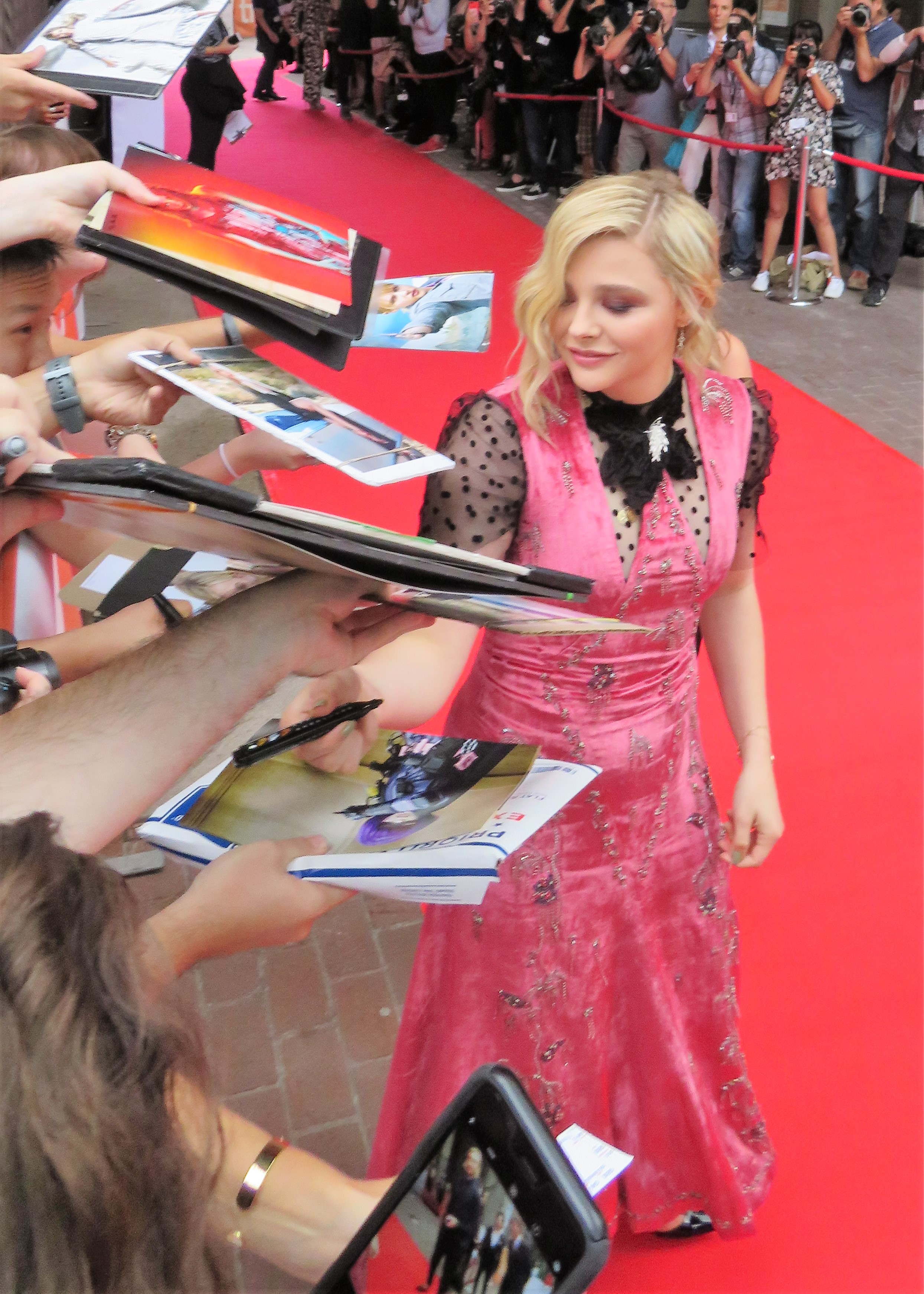 Chloë Grace Moretz at the premiere of Greta, 2018 Toronto Film Festival.